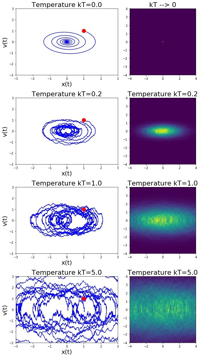 The left panel shows the time evolution of the phase portrait of a harmonic oscillator for different temperatures. The right panel captures the resulting probability distributions at thermal equilibrium. We observe that for k_B T= 0, the velocity rapidly decreases from its initial value (the red dot) to zero, due to the damping force. However, for non zero temperatures, thermal fluctuations can kick the velocity to values higher than the initial velocity and the particle never comes to rest, even at long times.